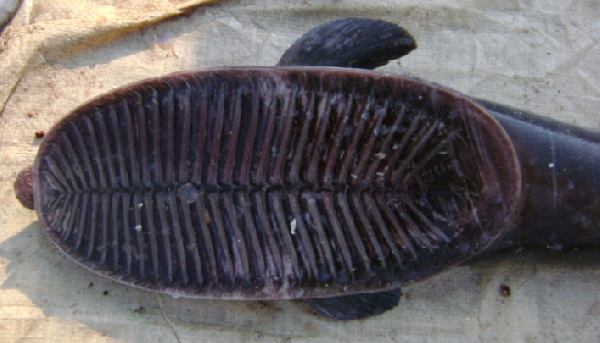 Remora australis collected in Karachi harbour, Pakistan.